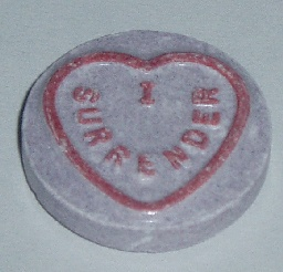 By Richard Wheeler (Zephyris) 07-03-2006